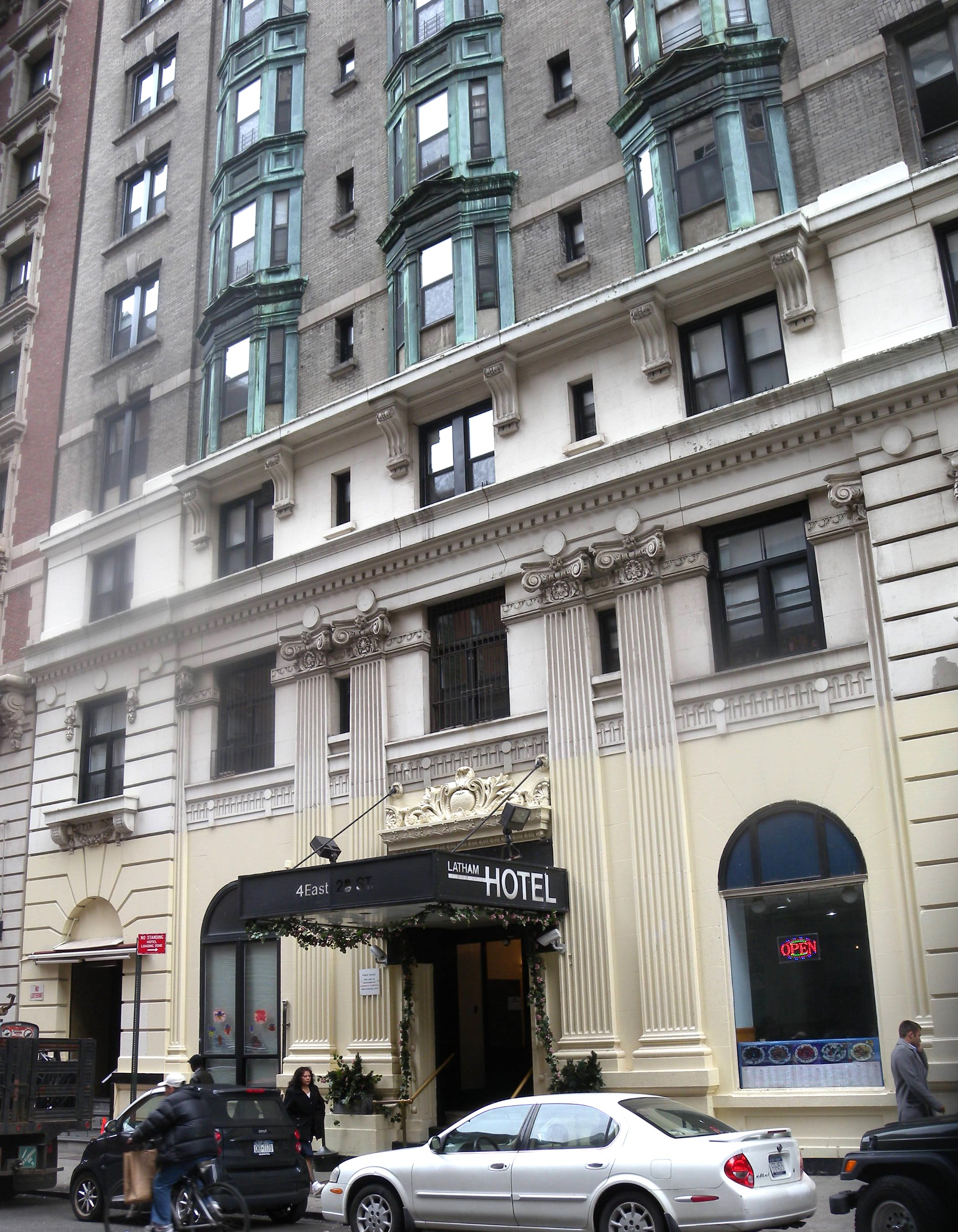 Looking south across 28th at Latham Hotel on a mostly sunny afternoon.